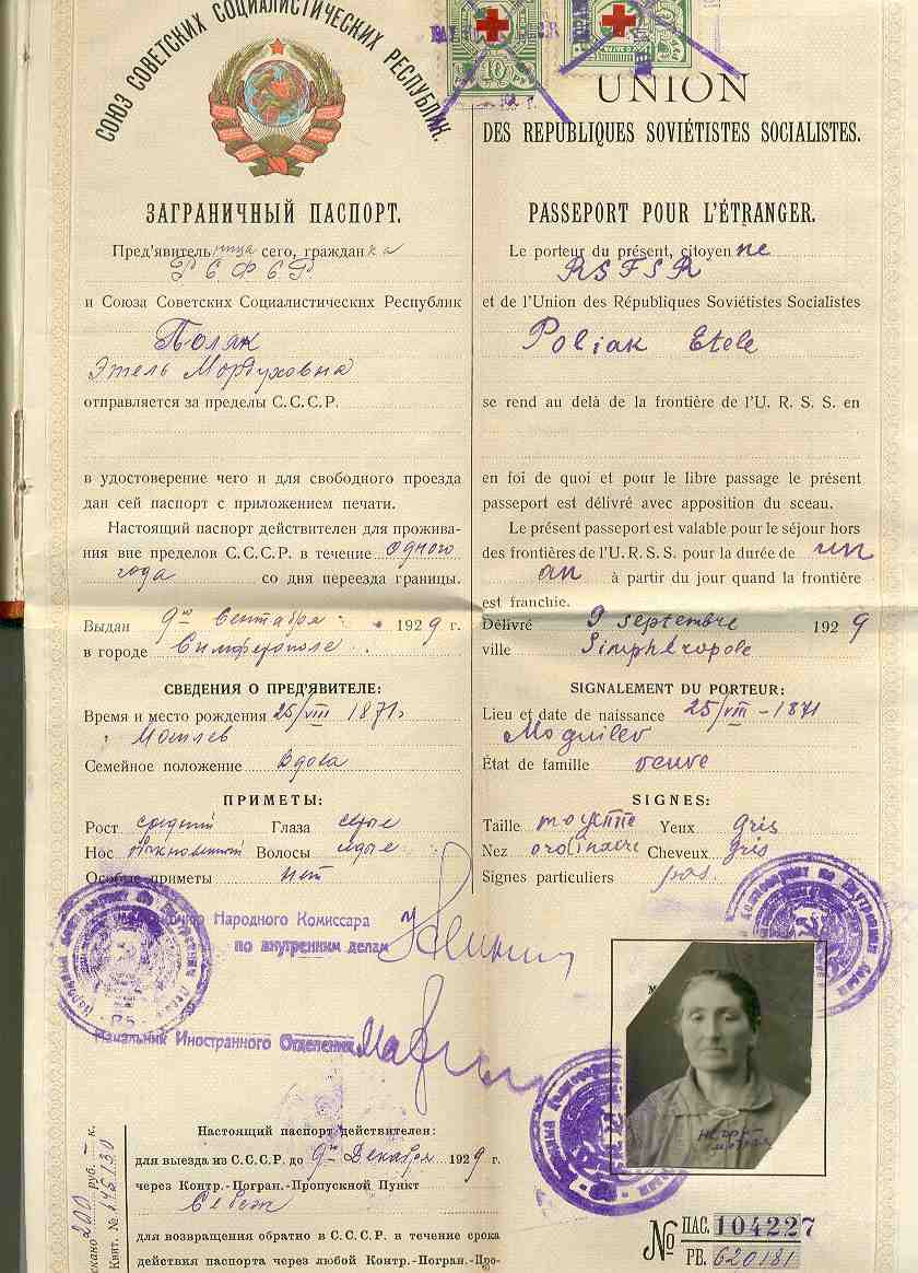 USSR "zagranpassport" (passport for outside the USSR travel) 1929